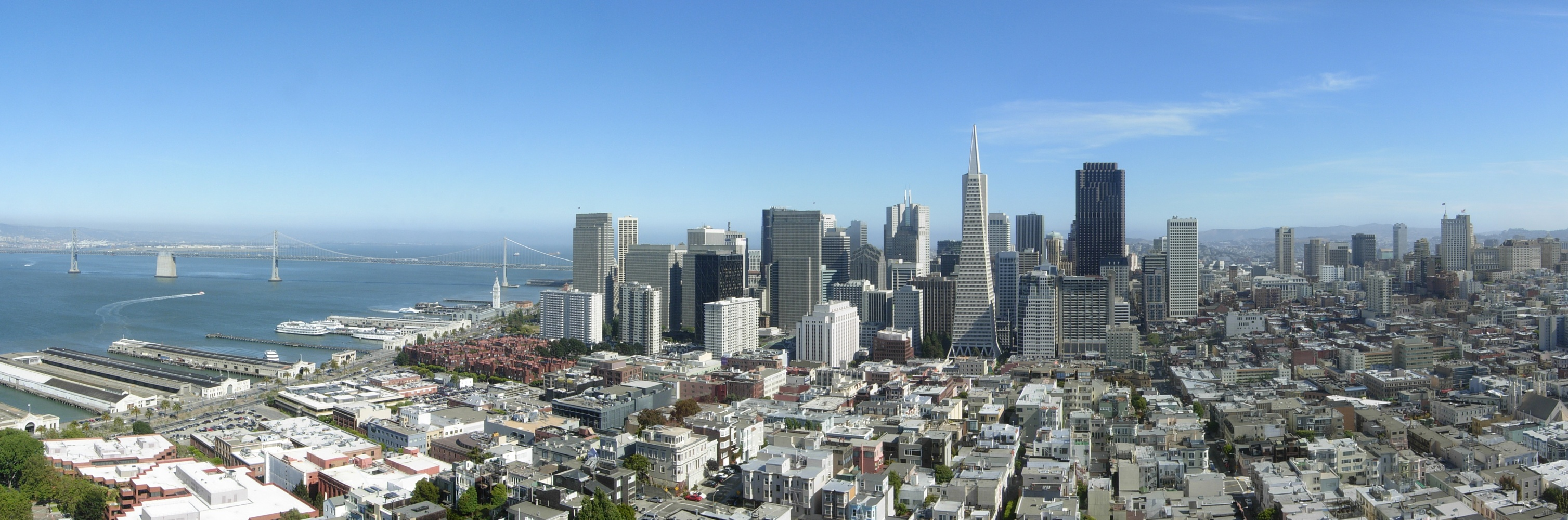 Panoramic view from Coit Tower in San Francisco, showing Bay Bridge, the piers and Downtown